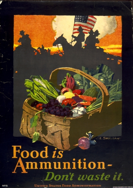 World War I Poster for United States Food Administration, by artist John E. Sheridan. Foreground is a basket of garden vegetables and fruits. Background is a silhouette of soldiers against and orange sky and holding an American Flag. Slogan is "Food is Ammunition - Don't waste it."